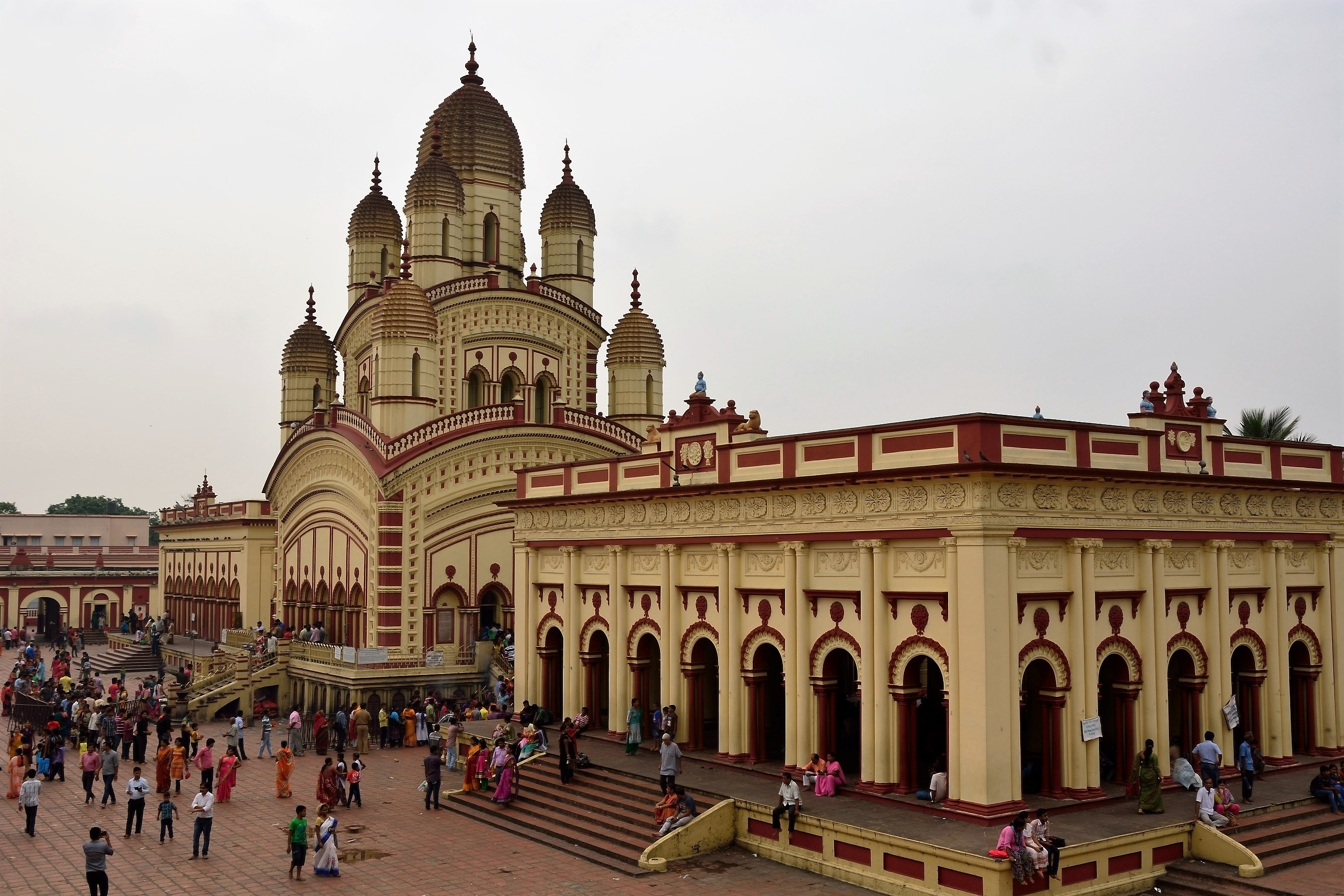 Dakshineswar Mandir